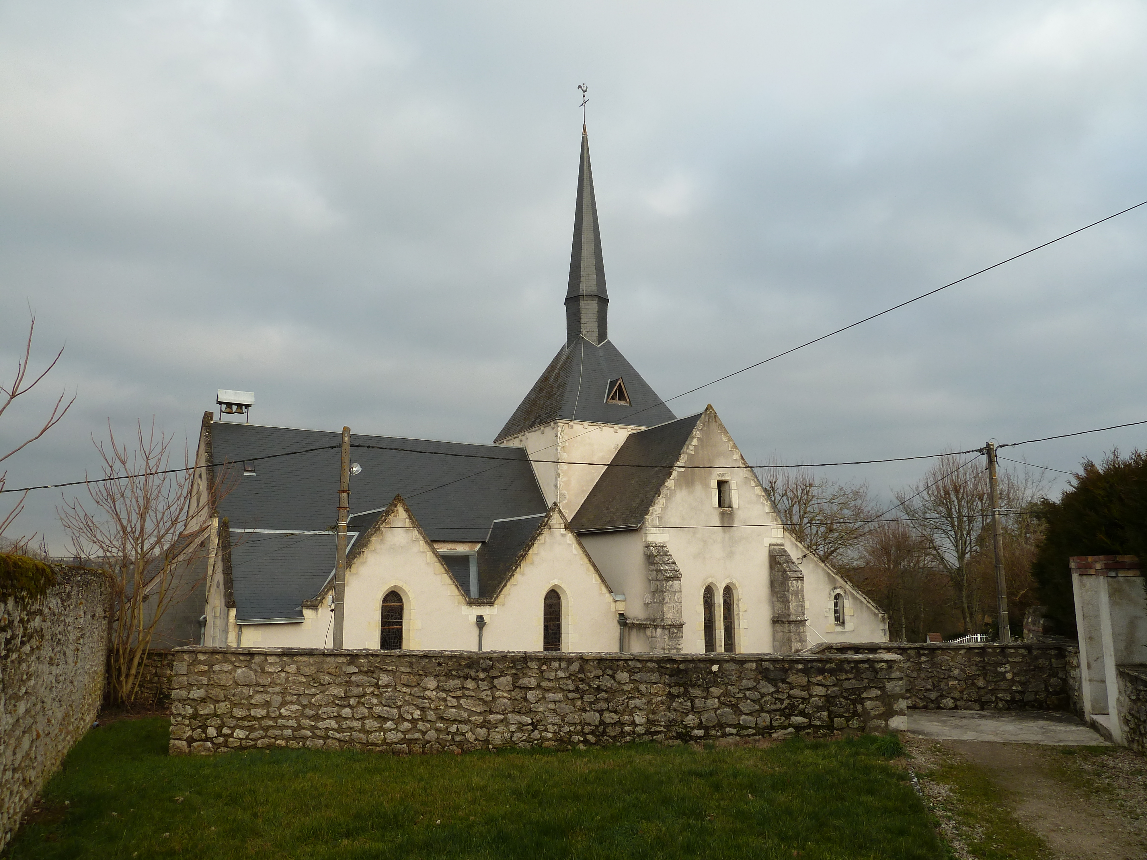 St Gervais la Forêt church. Shot from sqare above.